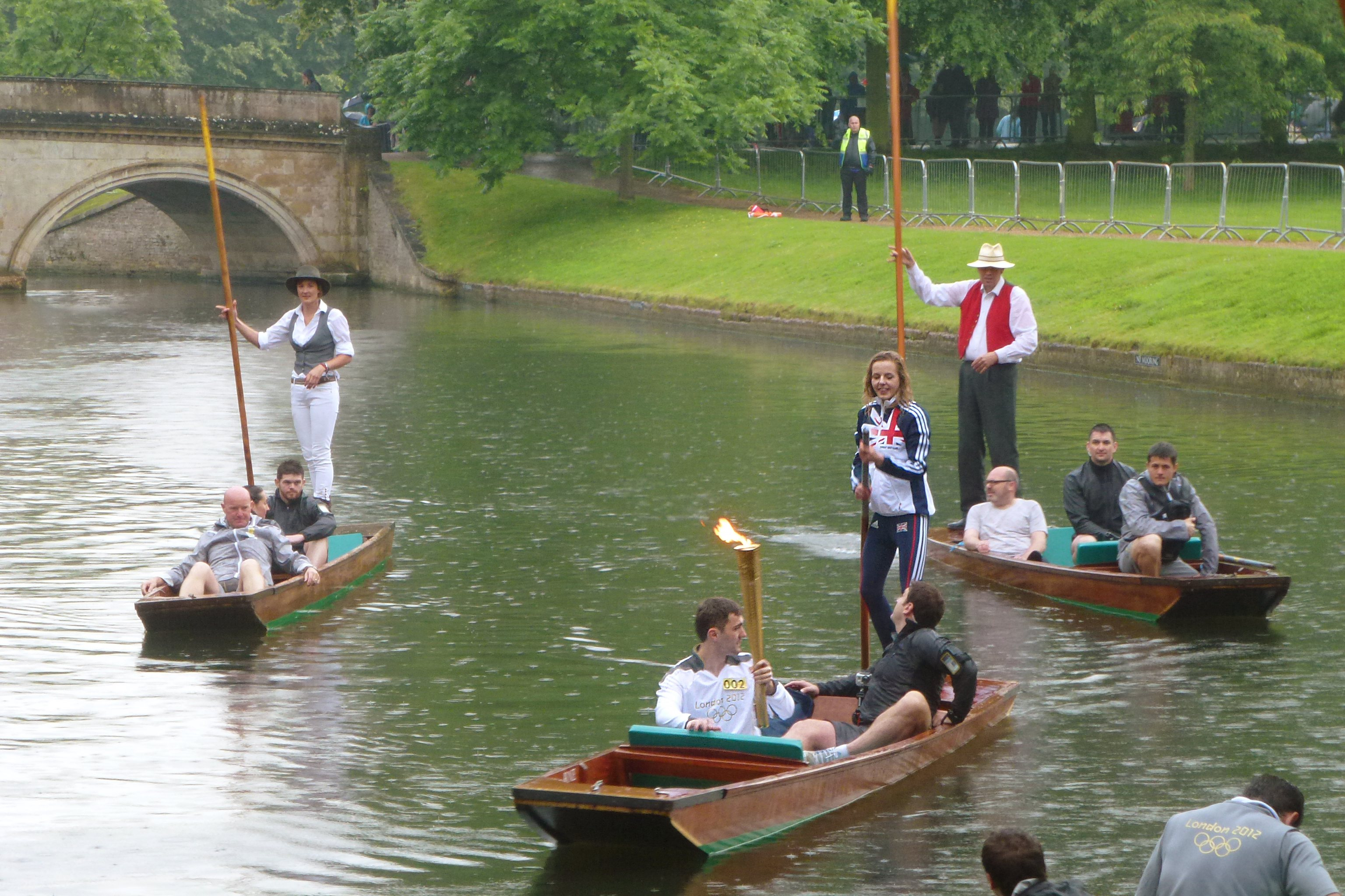 The Olympic torch being punted down the River Cam during the Cambridge leg of the 2012 Summer Olympics torch relay. Notice that she is going sideways (towards Kings) rather than forwards (towards the bridge) ... Should have hired a professional